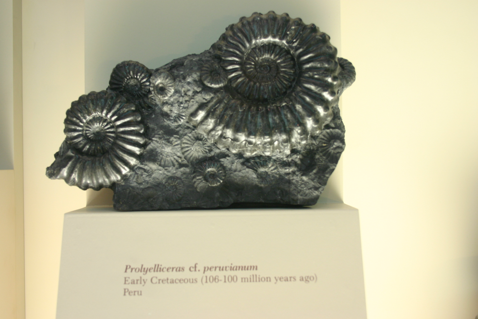 Prolyelliceras perucianum ammonite